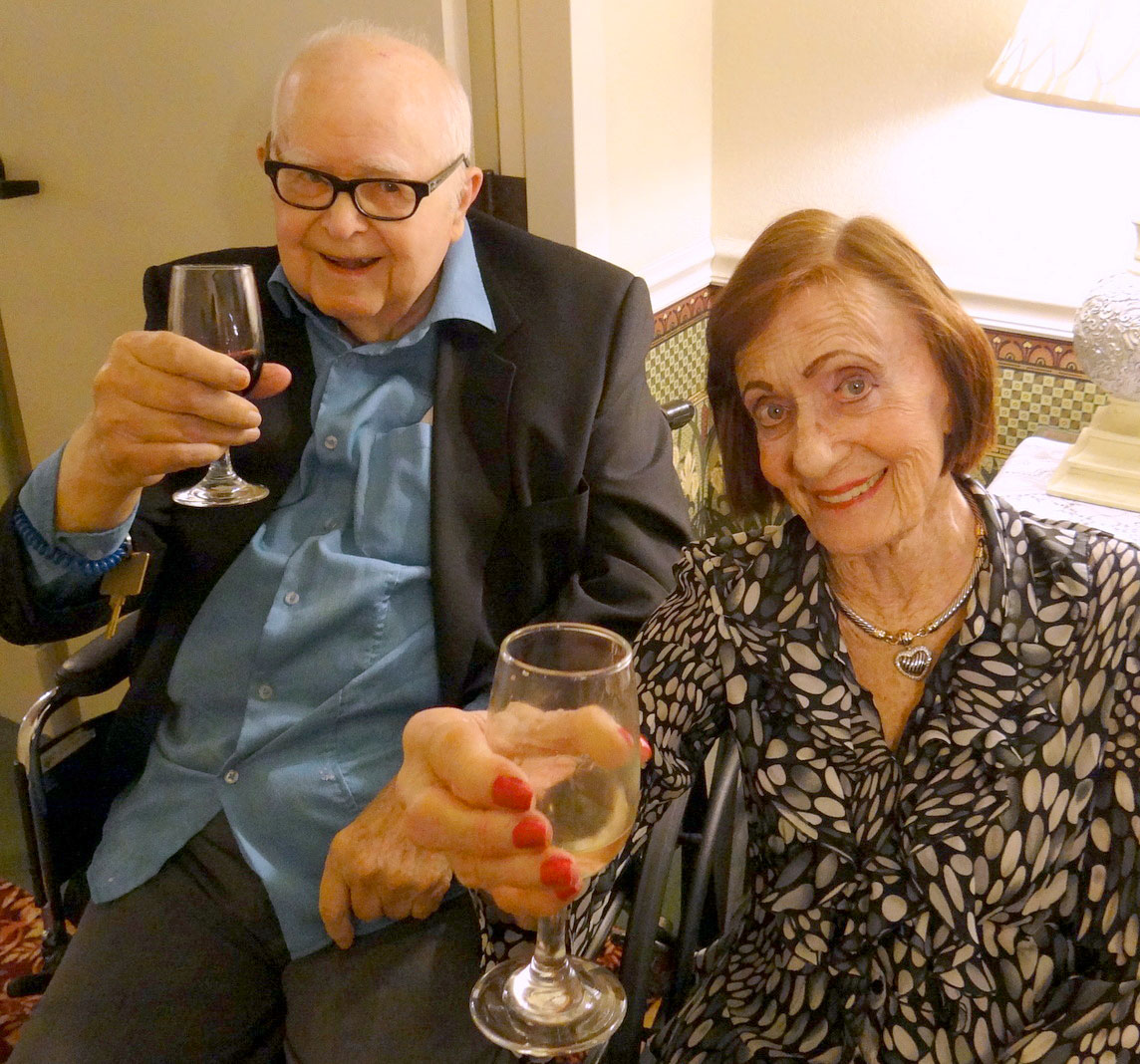 Harry Huskey and wife Nancy at the Winter Ball in Santa Cruz, CA at Sunshine Villa